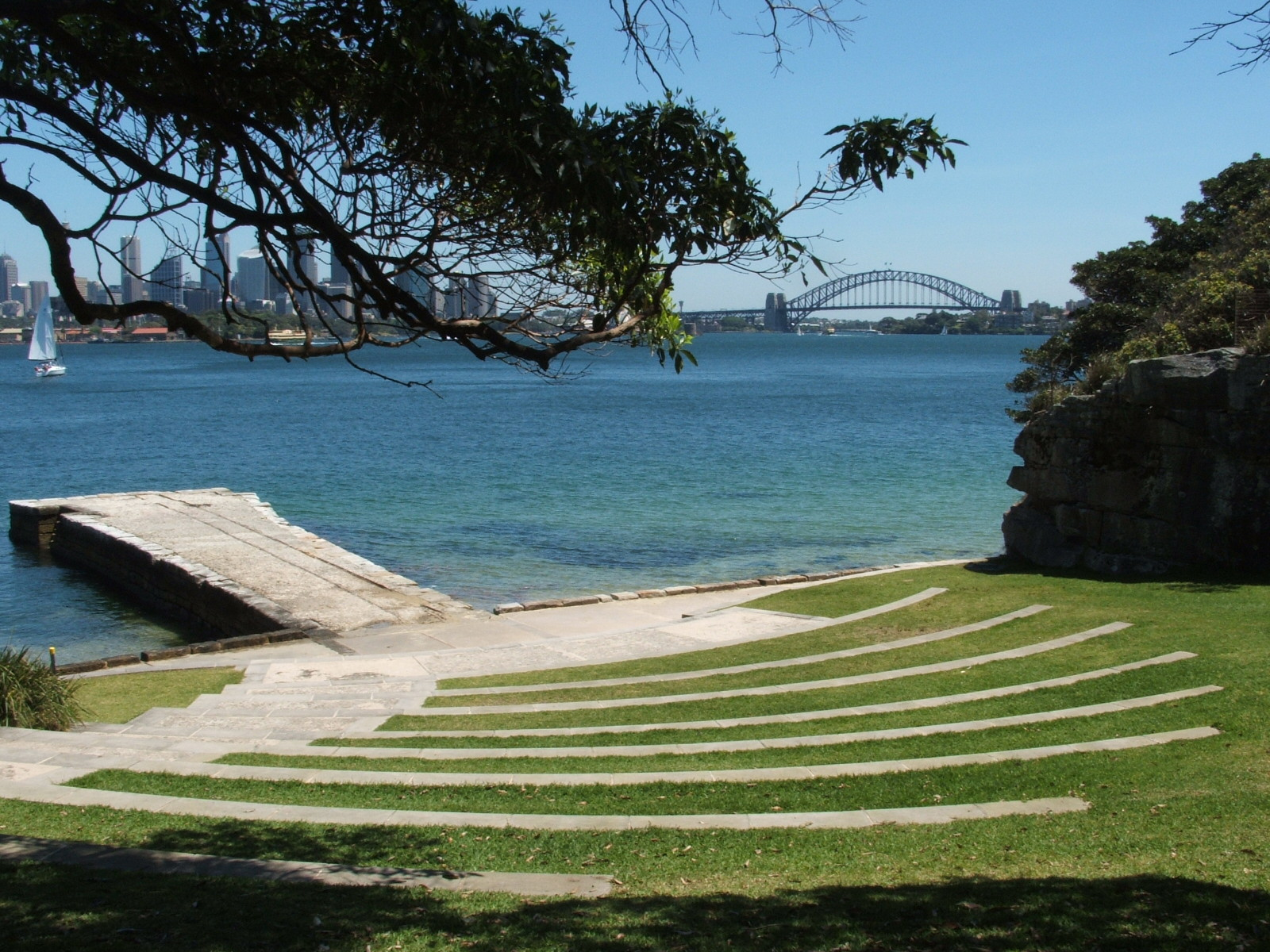 Location of filming for Mission Impossible 2, of scenes shot on Bradleys Head.